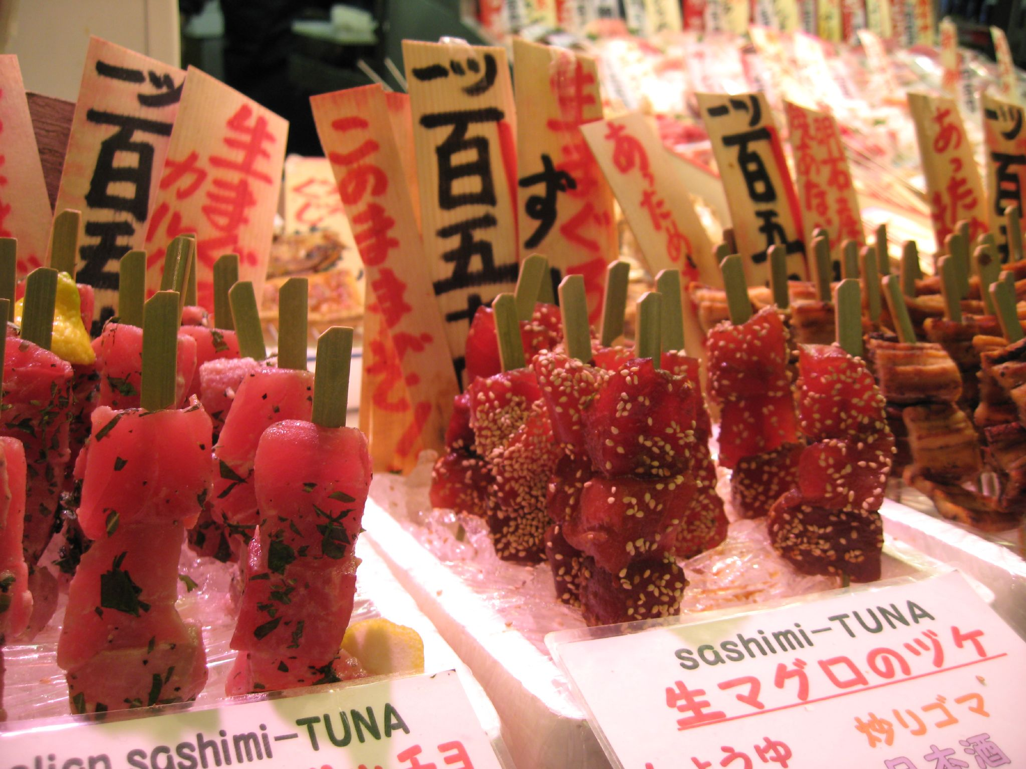 Maguro zuke kushi : slices of high quality raw tuna (maguro) flavoured with soysauce (zuke) on a stick (kushi).